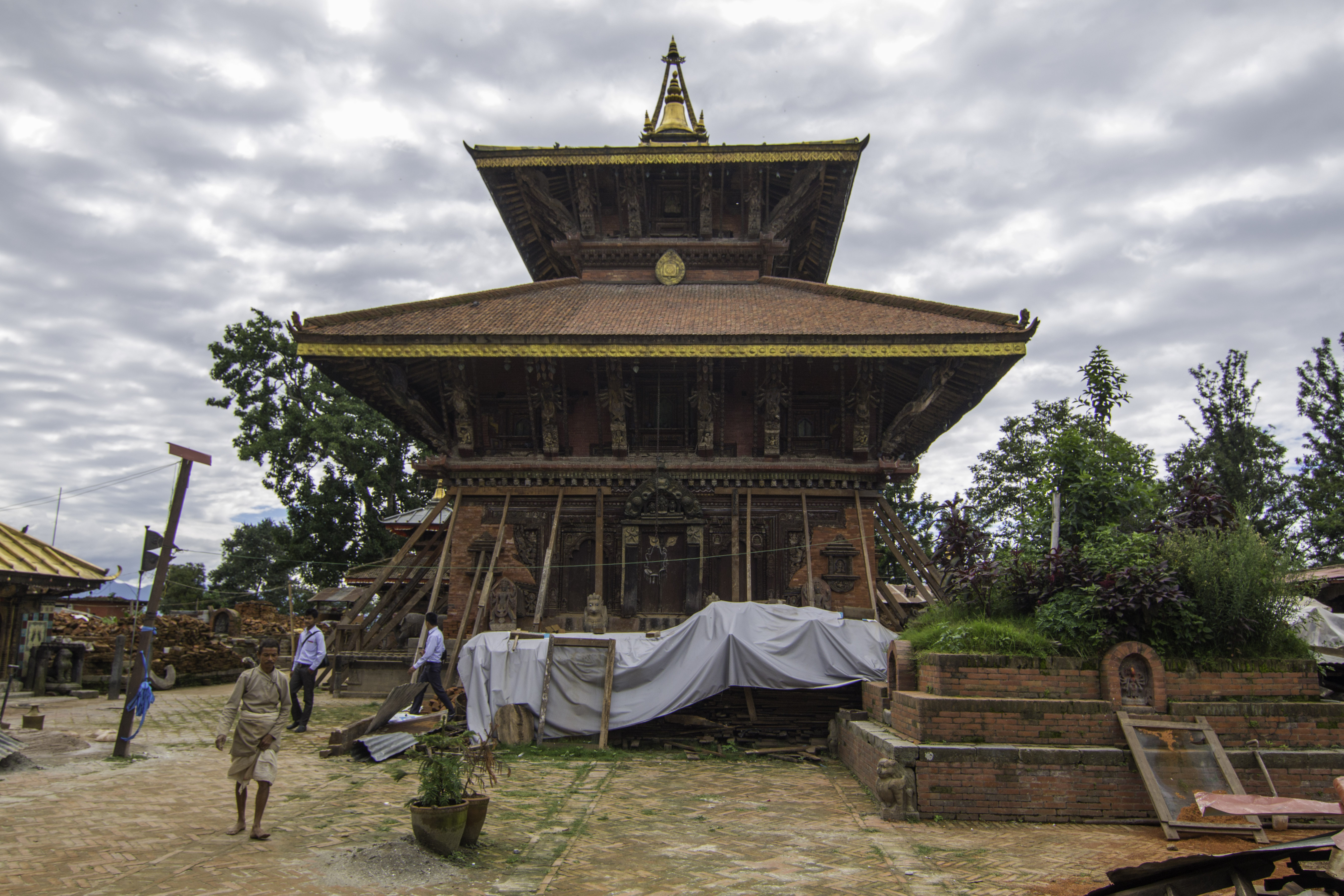 COPYRIGHTED